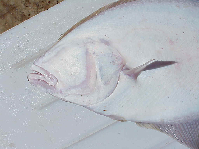 Ventral side of the head of a Pacific halibut , Hippoglossus stenolepis